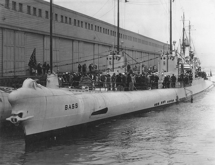 USS Bass (SS-164), outboard, and USS Bonita (SS-165) with civilian visitors on board, at San Francisco, California, May 1932. Photographed by Lauzin. Original caption: "Photo # NH 91779 USS Bass and USS Bonita during "open house" at San Francisco, May 1932" — removed caption